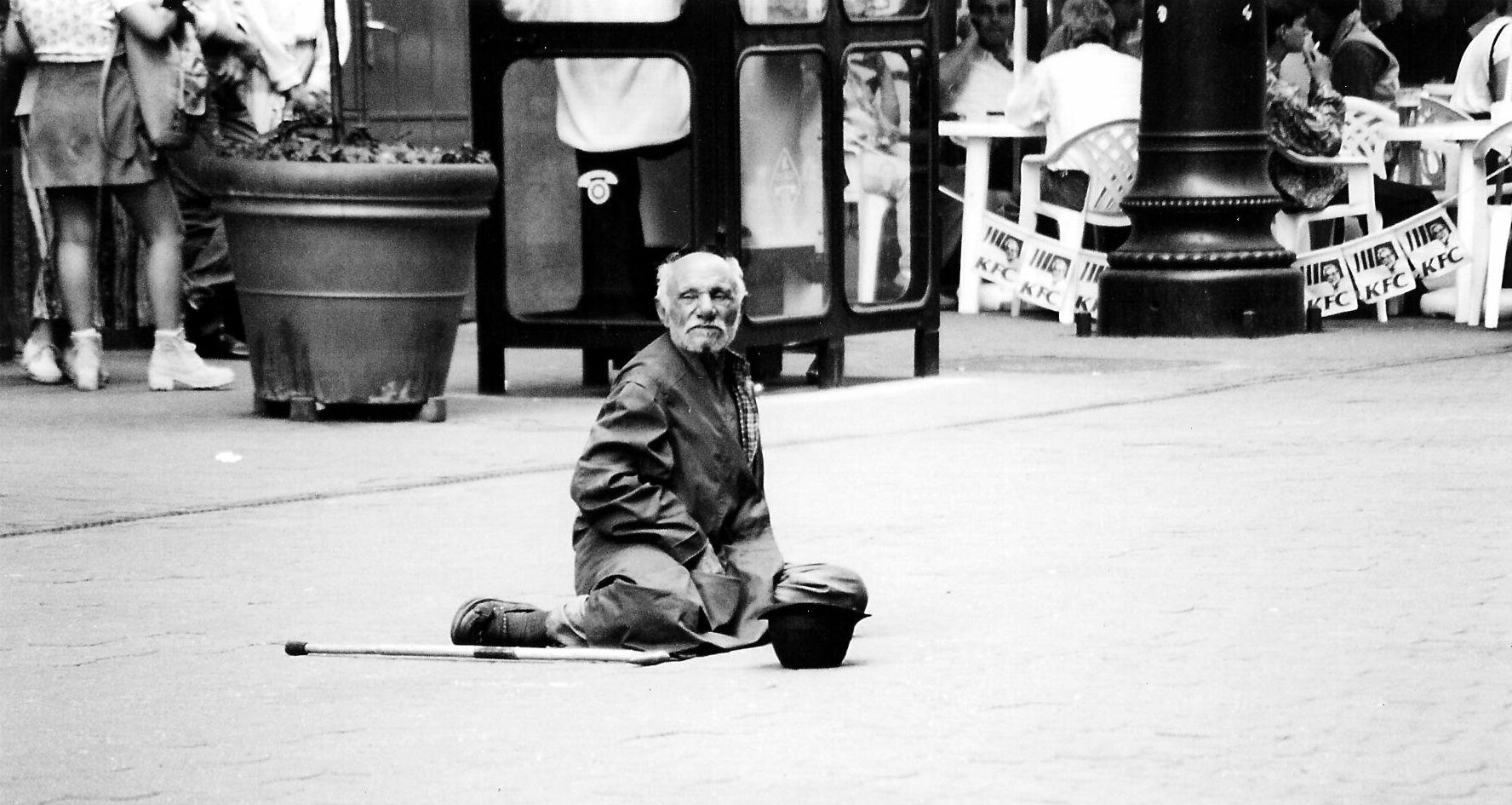 A beggar on the Deák Ferenc utca, Belvaros, Budapest, Hungary.